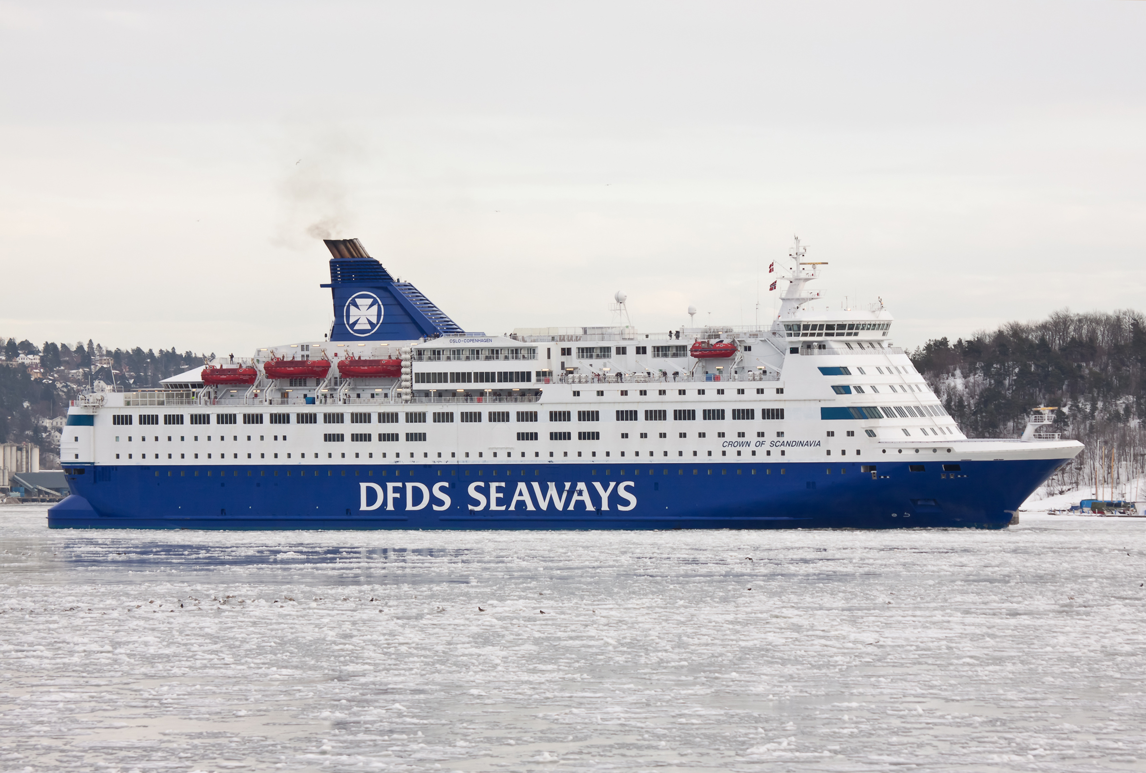 DFDS Seaways ferry Crown of Scandinavia departing Oslo